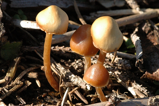 Tubaria hiemalis from Commanster, Belgium. The determination of the species shown in this picture has been verified.